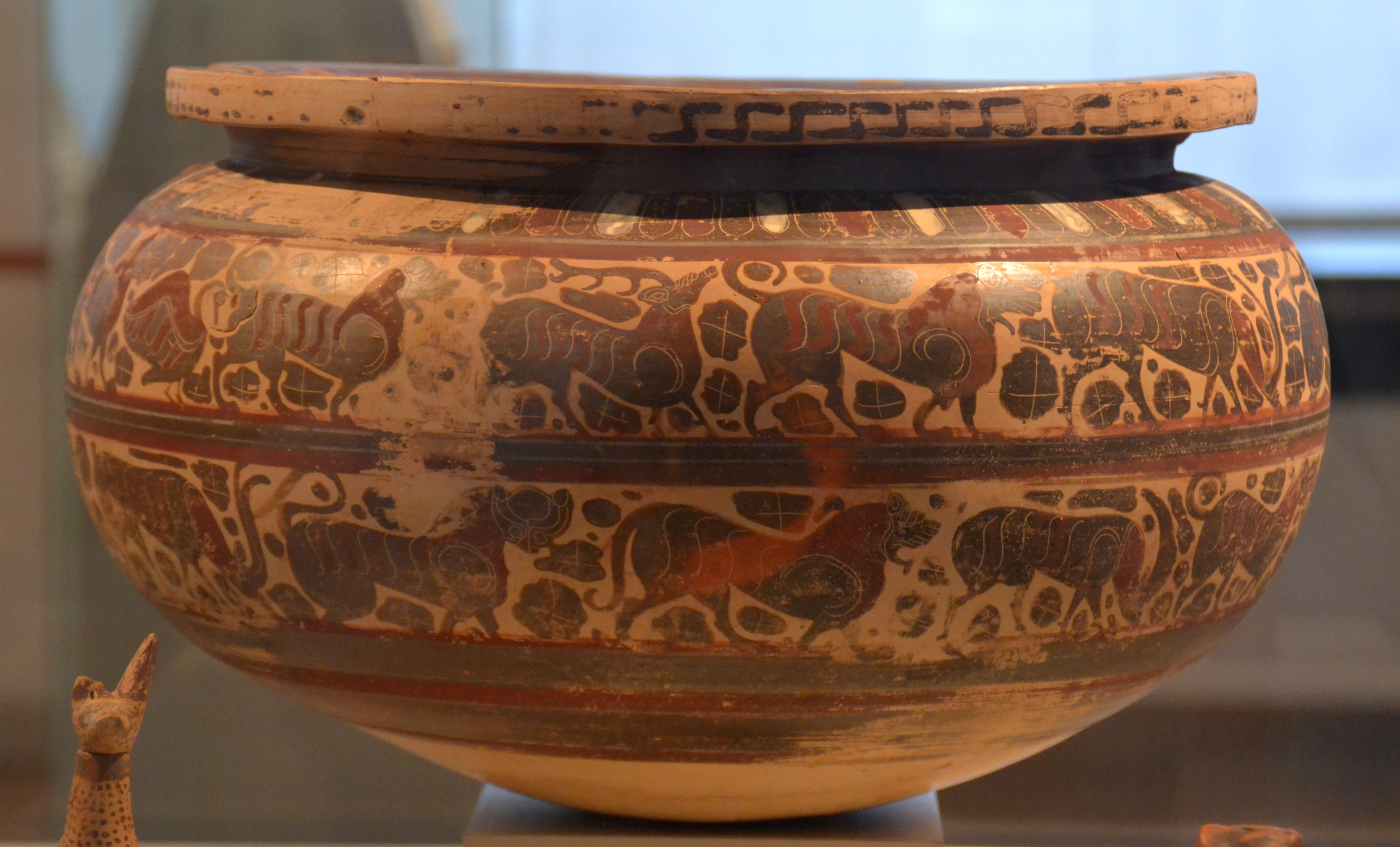 Etrusco-corinthian Dinos by the Dorow painter depicting two animal frizes; from Vulci; Clay, about 590/60 BC; Antikensammlung Berlin F 1263.